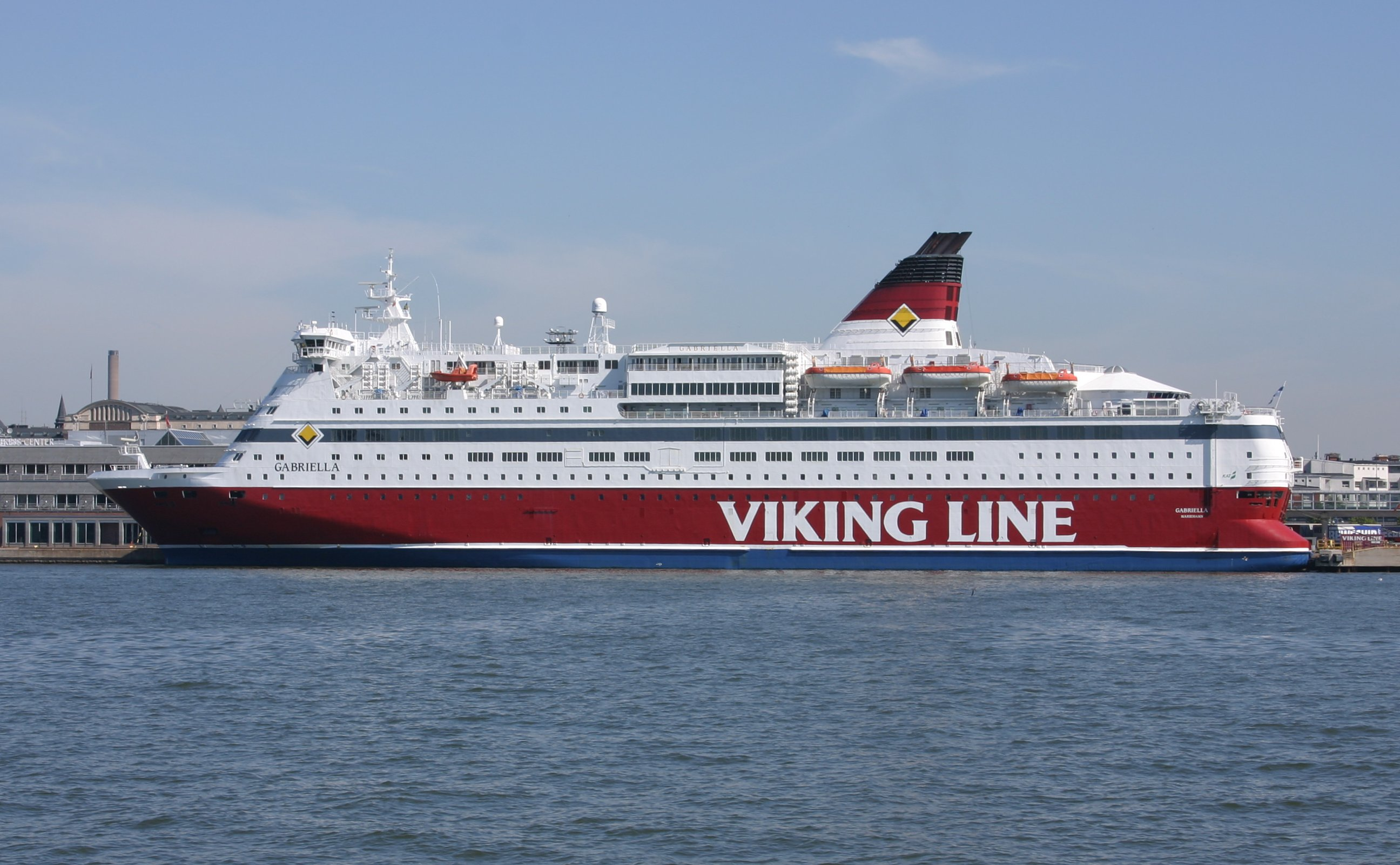 Viking Line ship Gabriella in Helsinki. IMO Number: 8917601 MMSI Number: 230361000 Callsign: OJHP Length: 172 m Beam: 28 m